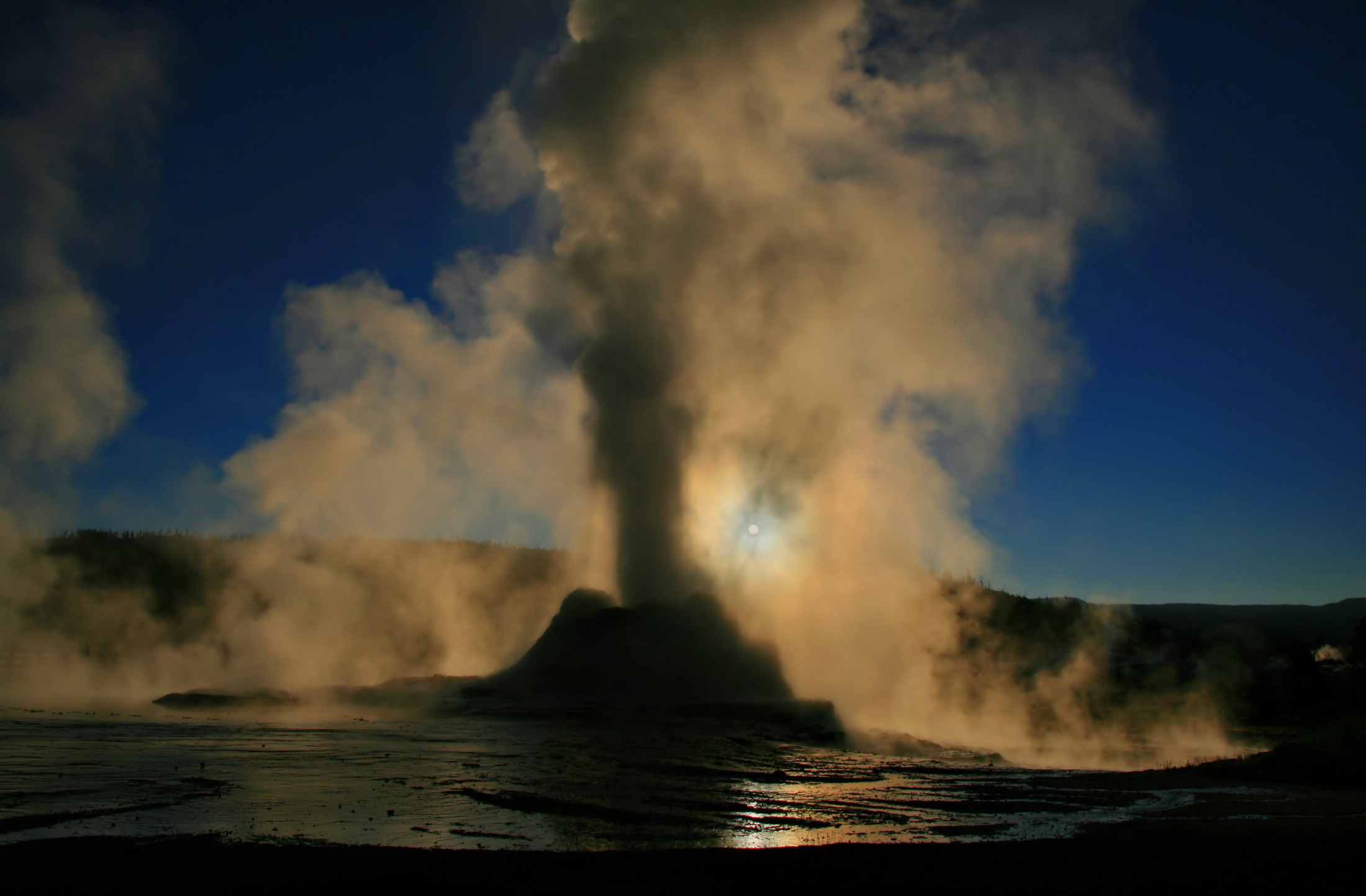 Steam phase eruption of Castle Geyser in Yellowstone National Park